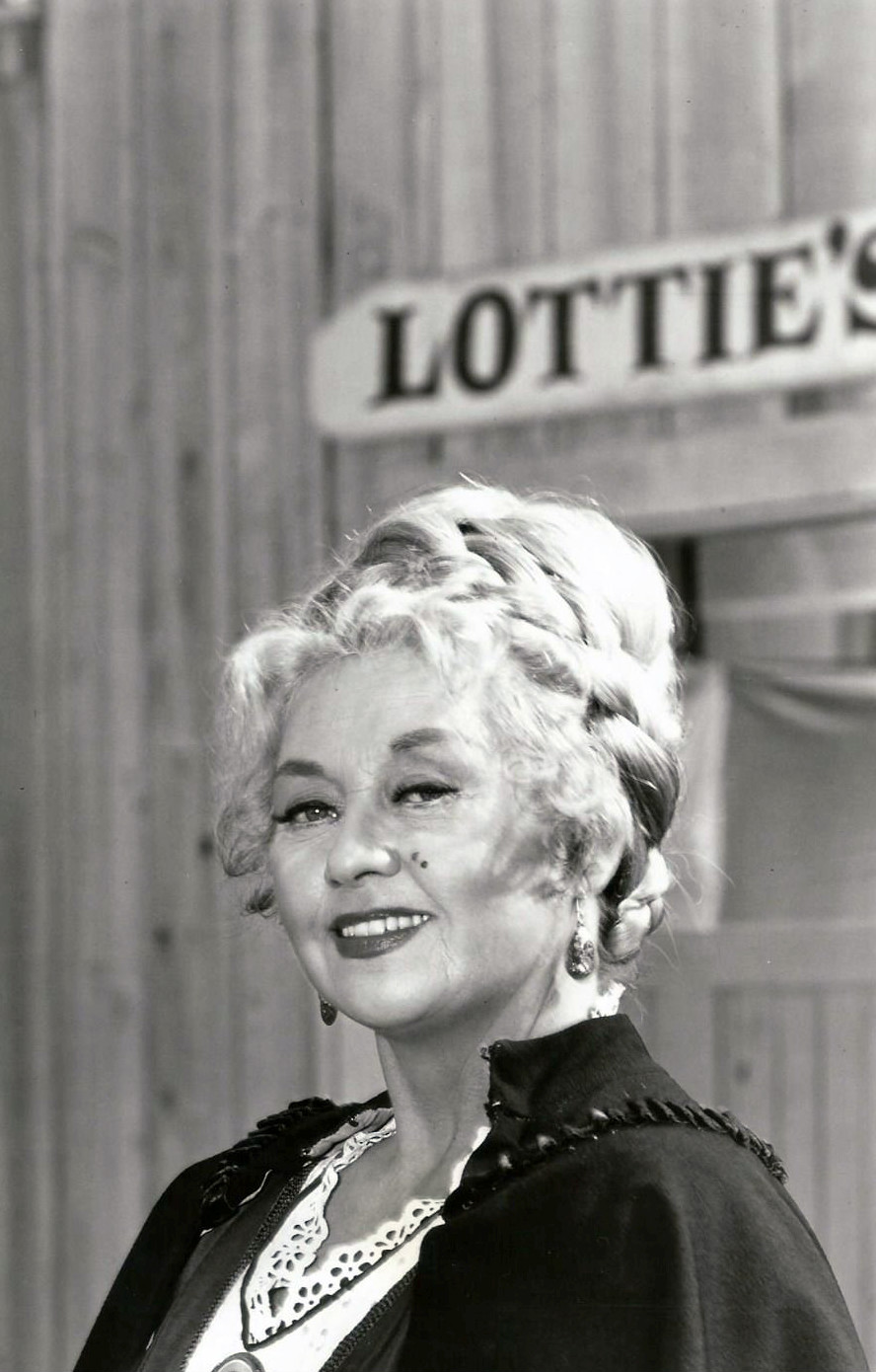 Publicity photo from Here Come the Brides. Pictured is Joan Blondell as Lottie.